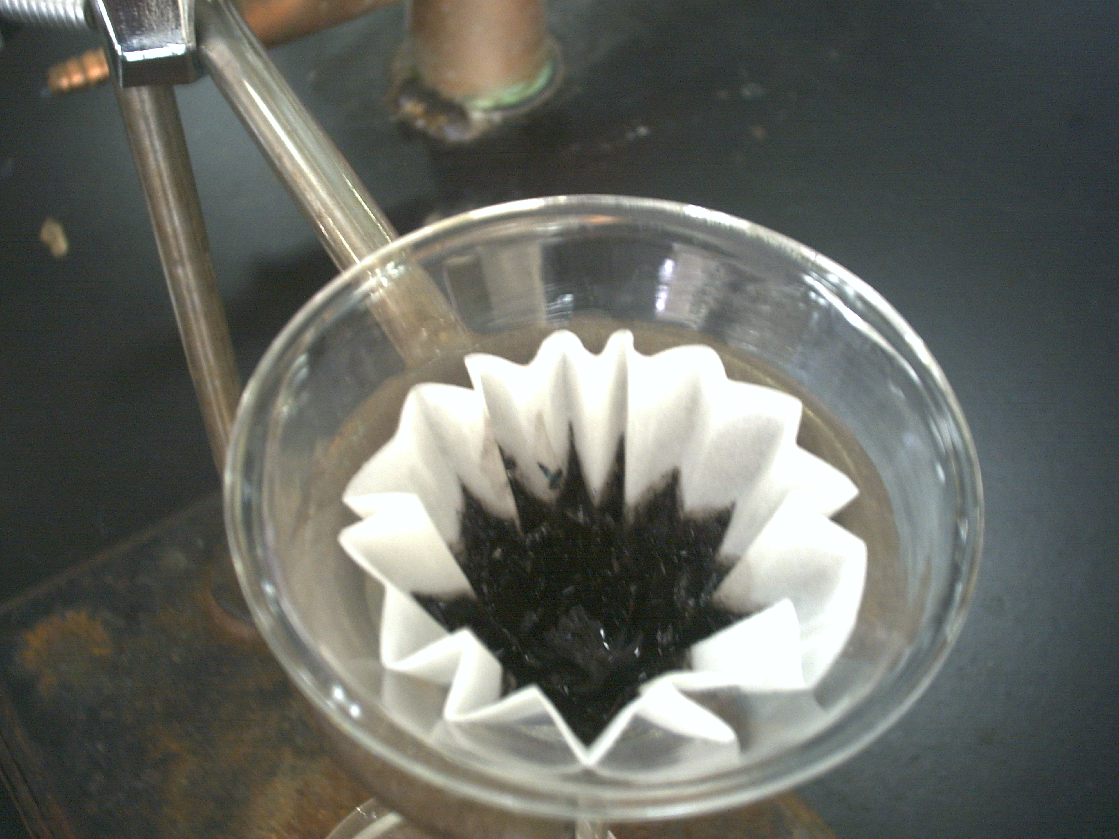 Filter apparatus.